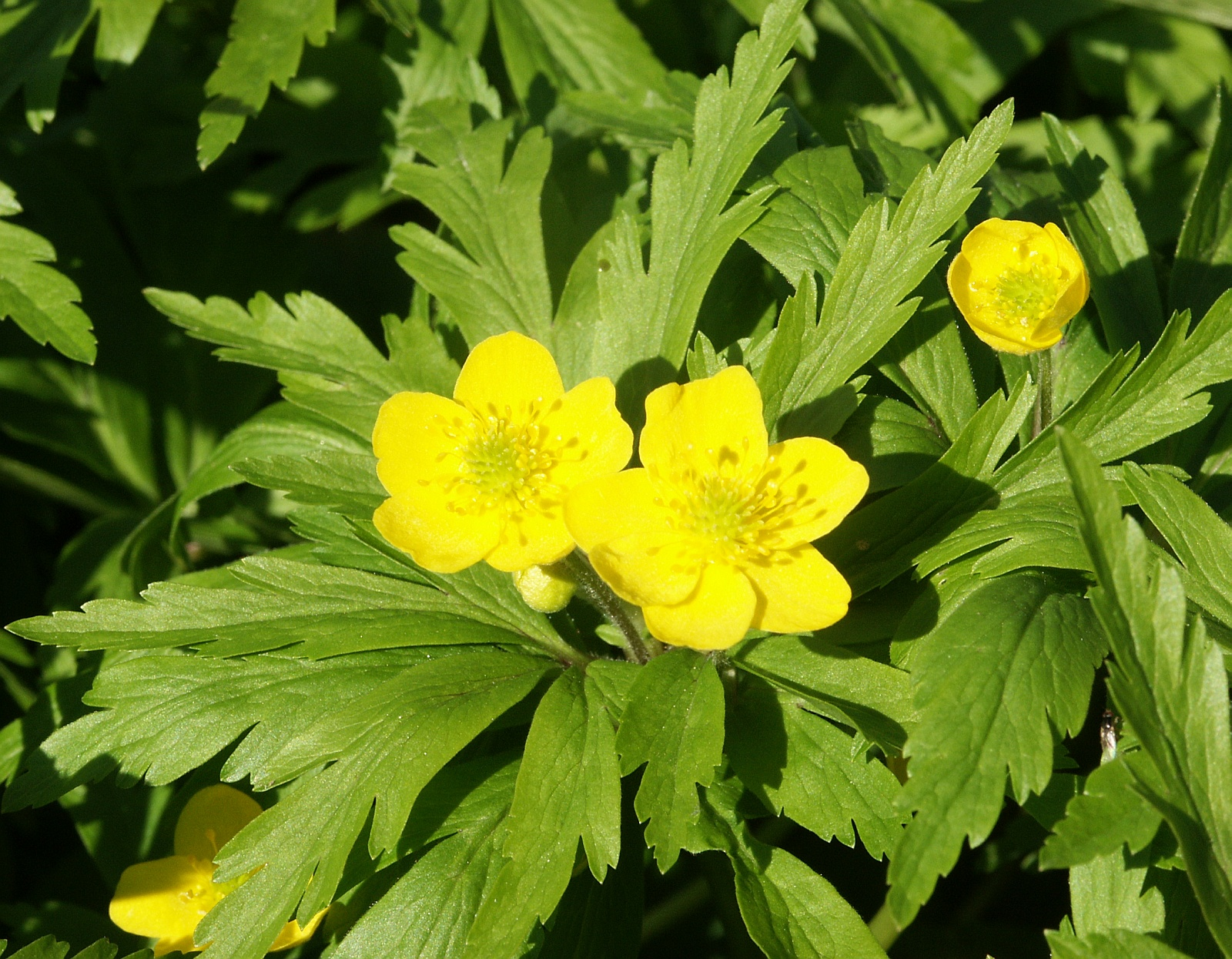 Anemone ranunculoides, northern Baden-Württemberg, Germany